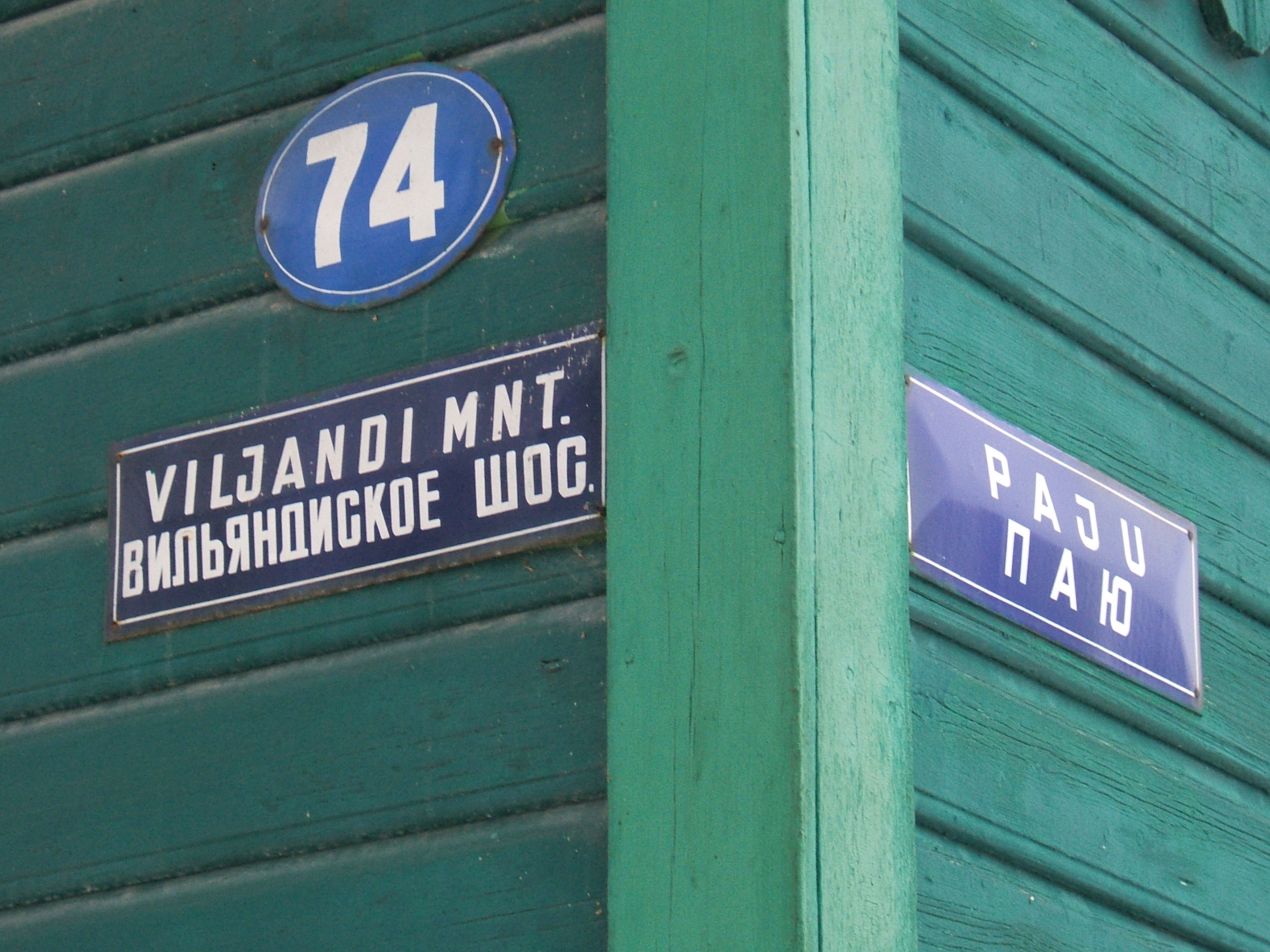 Bilingual street sign in Rapla. Now a rare sight in Estonia.